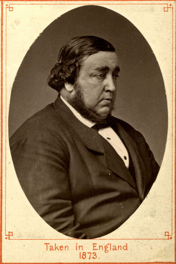 Arthur Orton in 1873